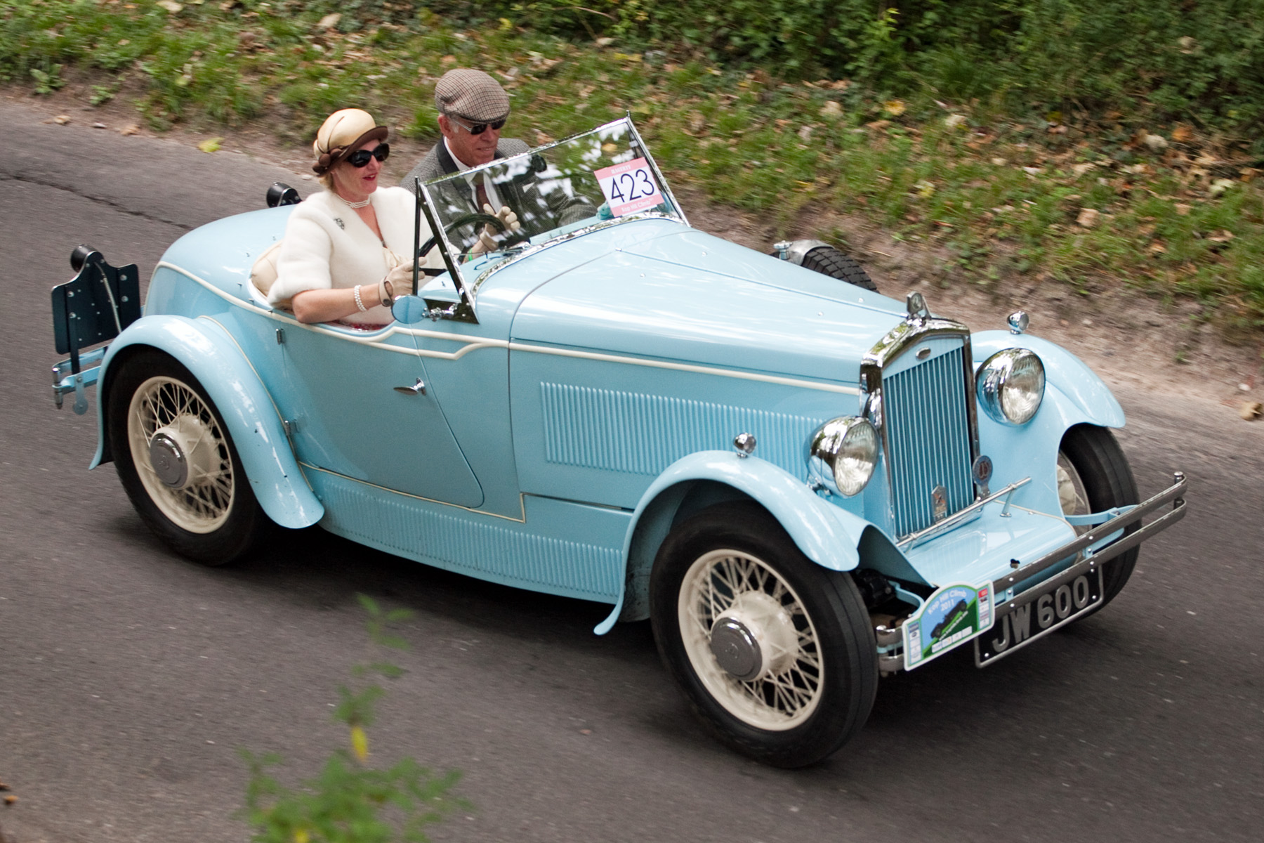 1931 Wolseley Hornetbody by Swallow Sidecar and Coachbuilding (S.S.) laterSwallow Coachbuilding Co. (1935) Ltd